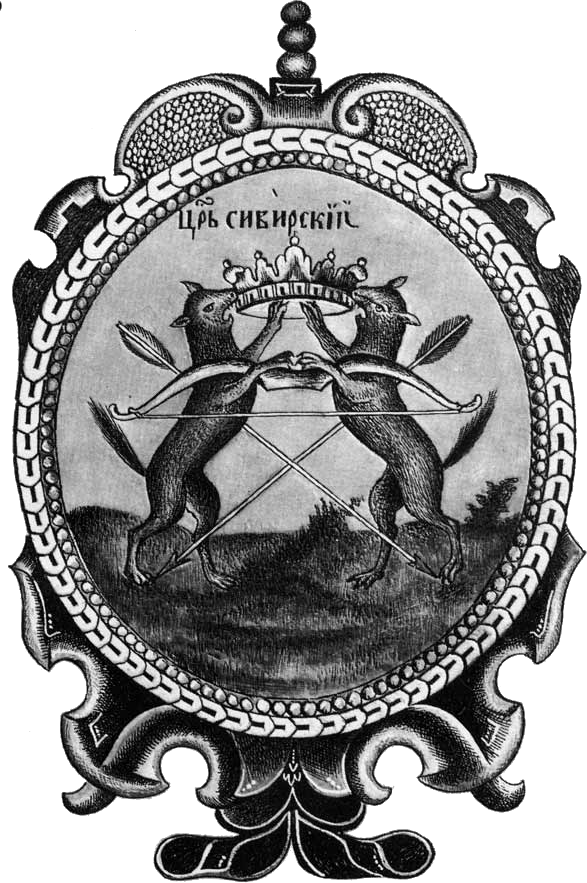 Historical coat of arms of Siberia.